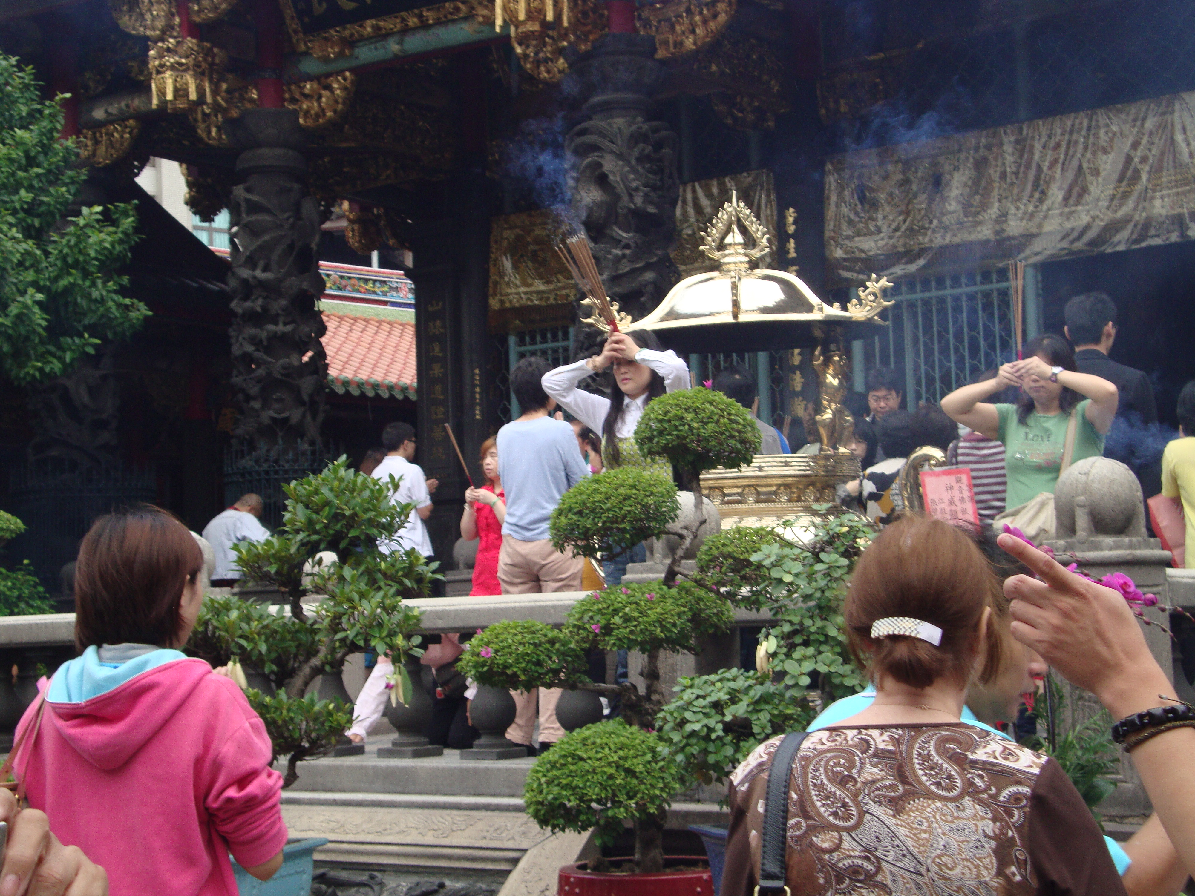 This is Longshan Temple in Taipei. Note: Seemingly, the author of the photograph erroneously described it as Xingtian Temple. Compare the images at the websites of Longshan Temple and Xingtian Temple.